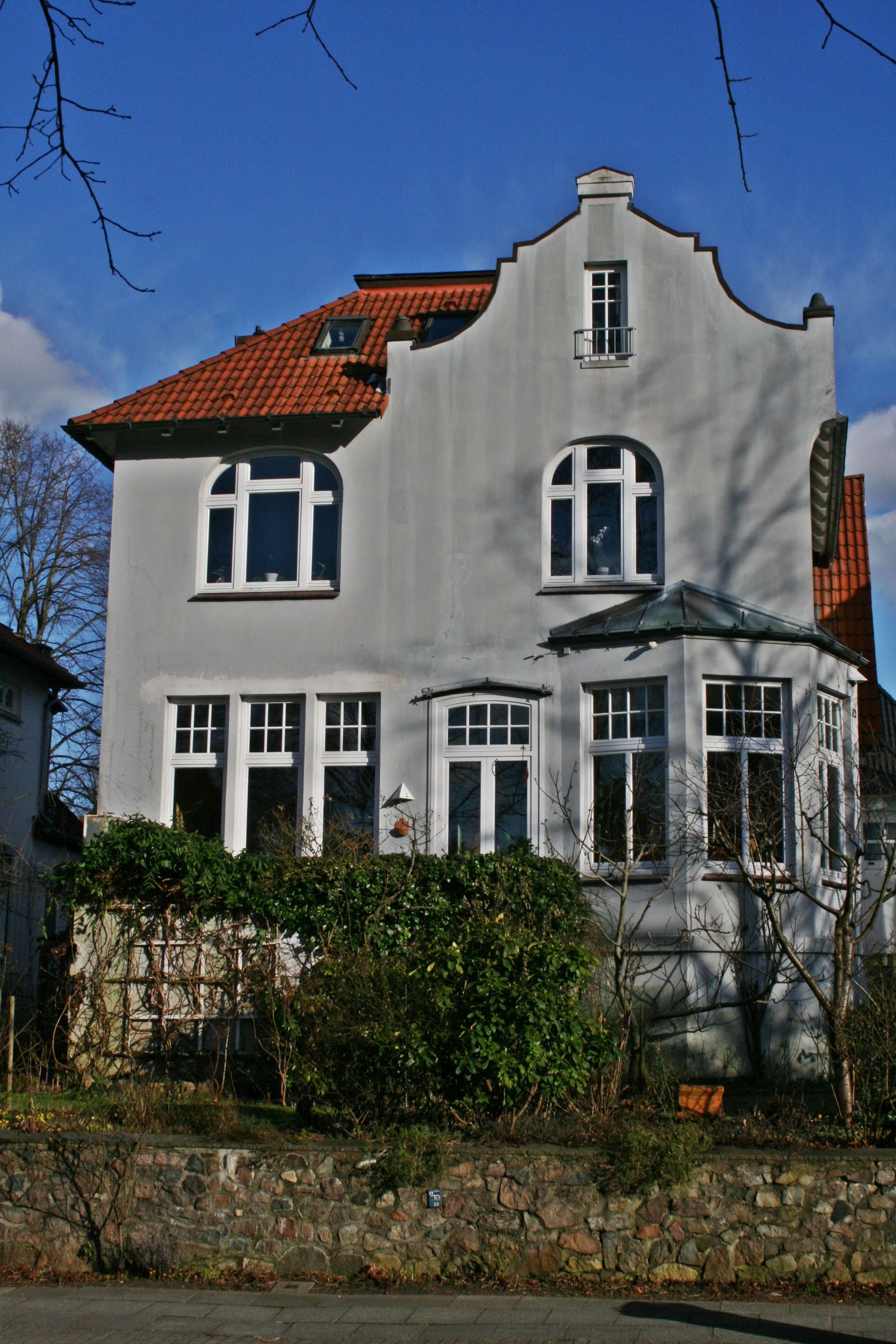 House Hermann-Distel-Straße 34 in Hamburg-Bergedorf. In front of this house there is a Stolperstein for Ida Burg, a victim of Nazism.